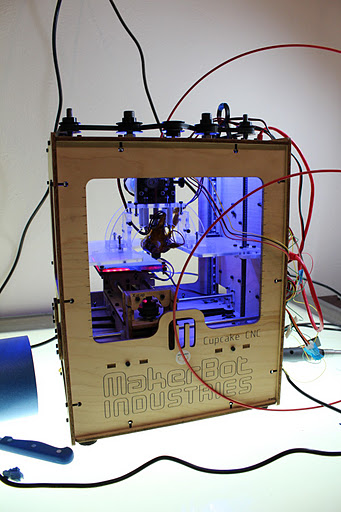 a 3d printer found in the hackerspace.gr